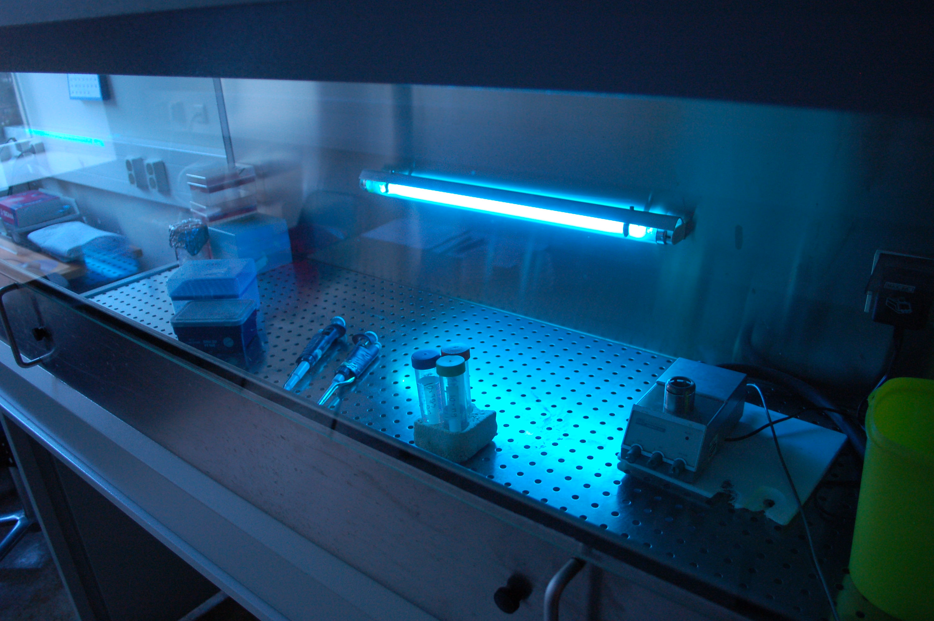 In a laboratory a germicidal ultraviolet lamp is used to sterilize culture media for growth of bacterial before use, to prevent contamination by undesirable microorganisms.